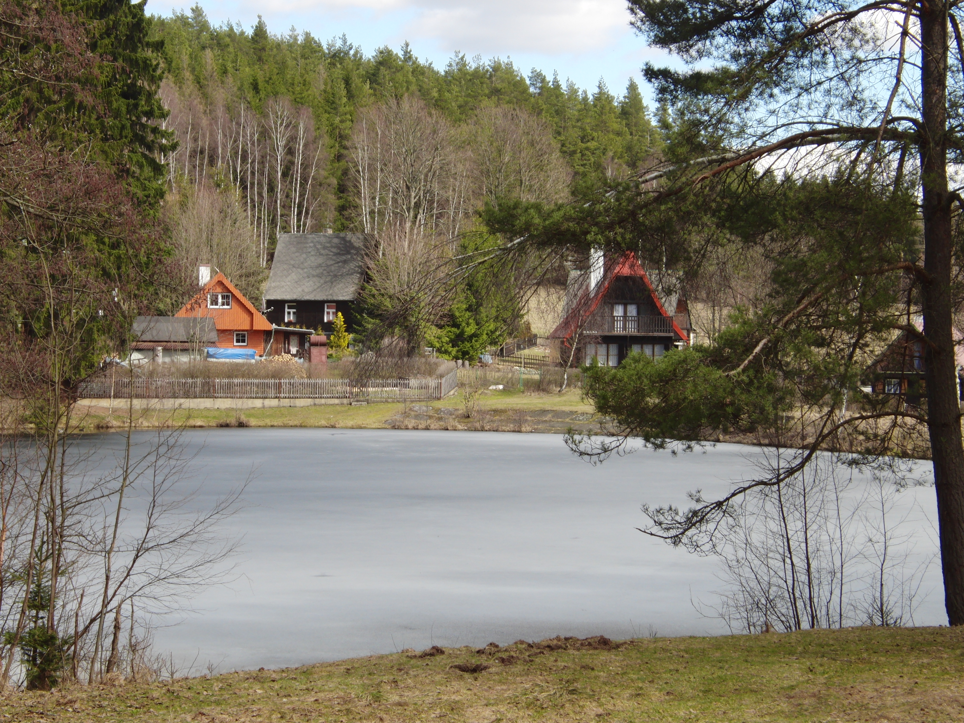 Třídomí (Sokolov District)